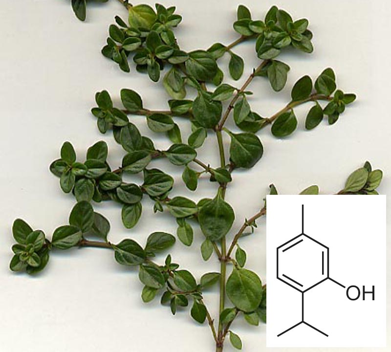 Chemical structure of thymol on Thymus vulgaris leaves, which contains thymol.